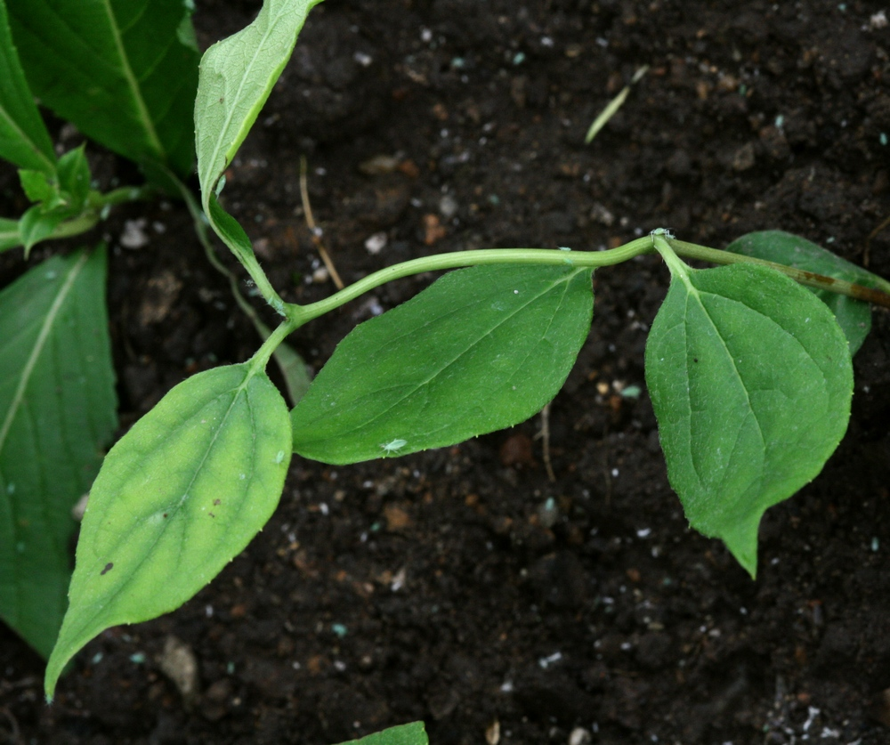 Young plant of Philadelphus x falconeri planted from cut.